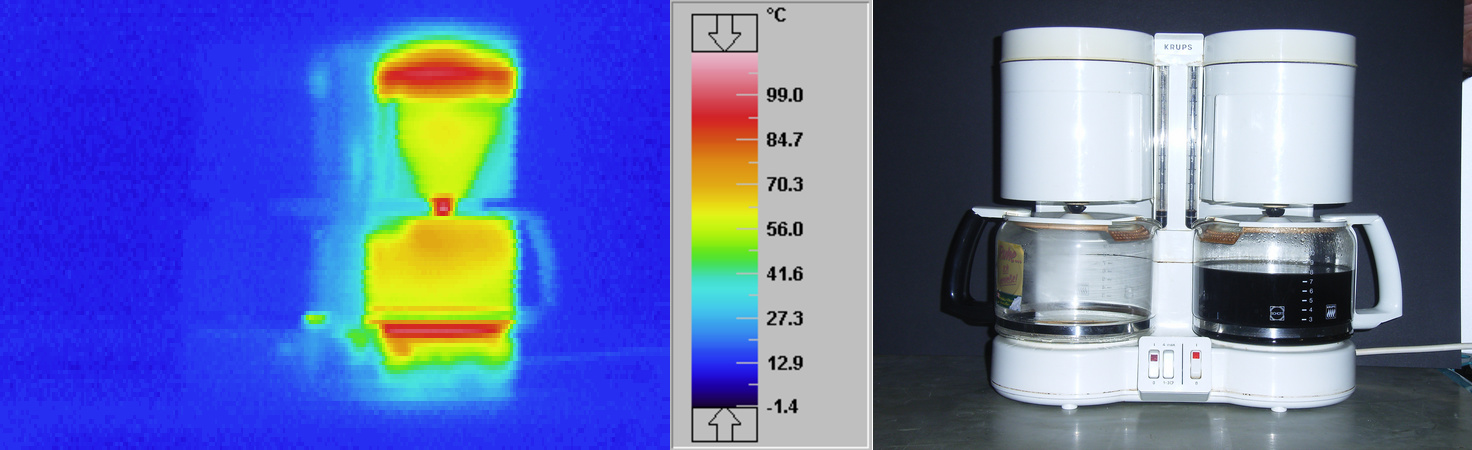 Coffee maker imaged in the infrared (thermography, left) and visible spectrum (right). Temperatur values are not exact since emissivity 1 was assumed for all surfaces.